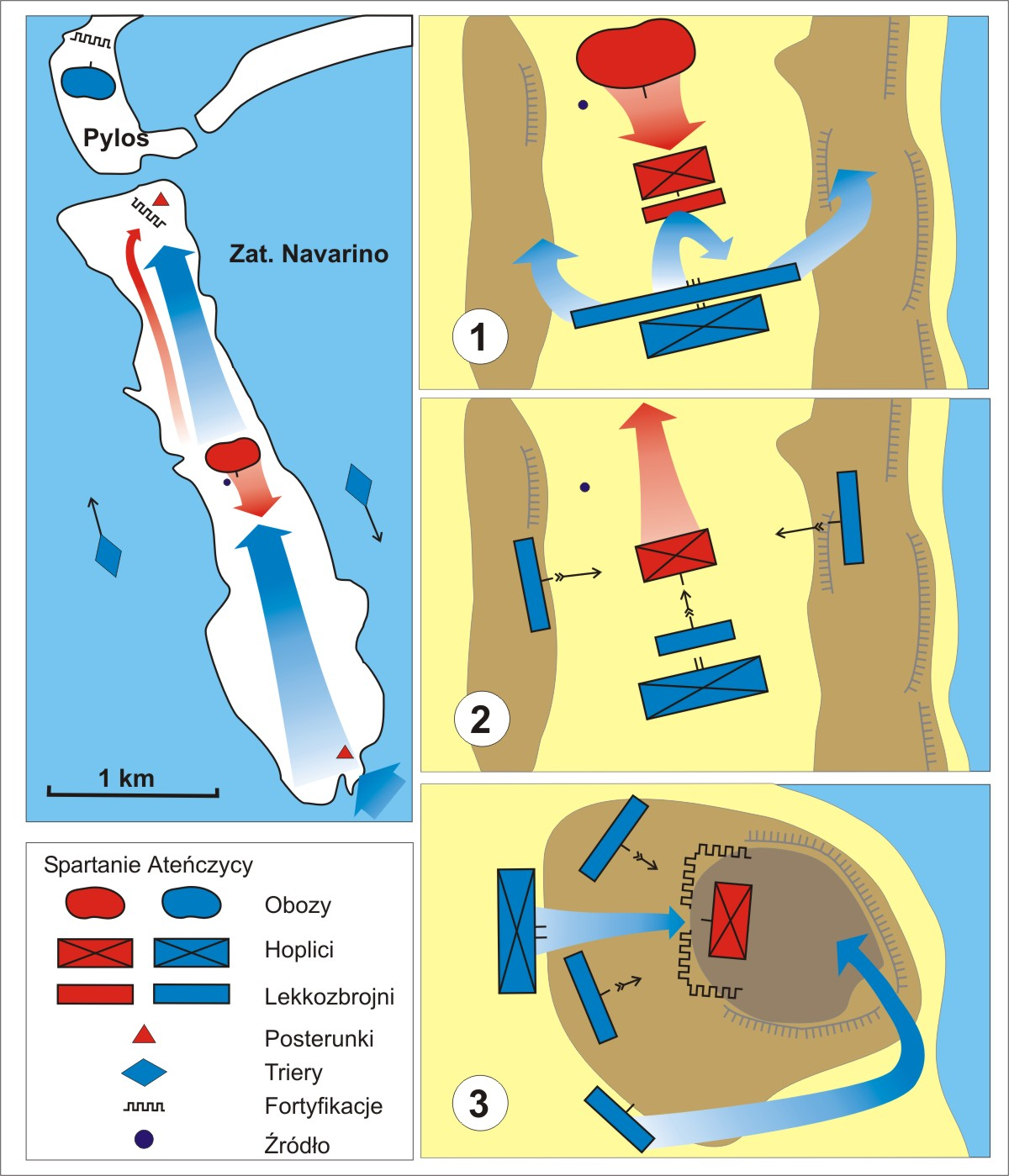 sfakteria_battleplan.jpg description: the battle of Sphacteria (425 BC) - map of the battlesite and battle diagram author: Tomasz Brzeziński